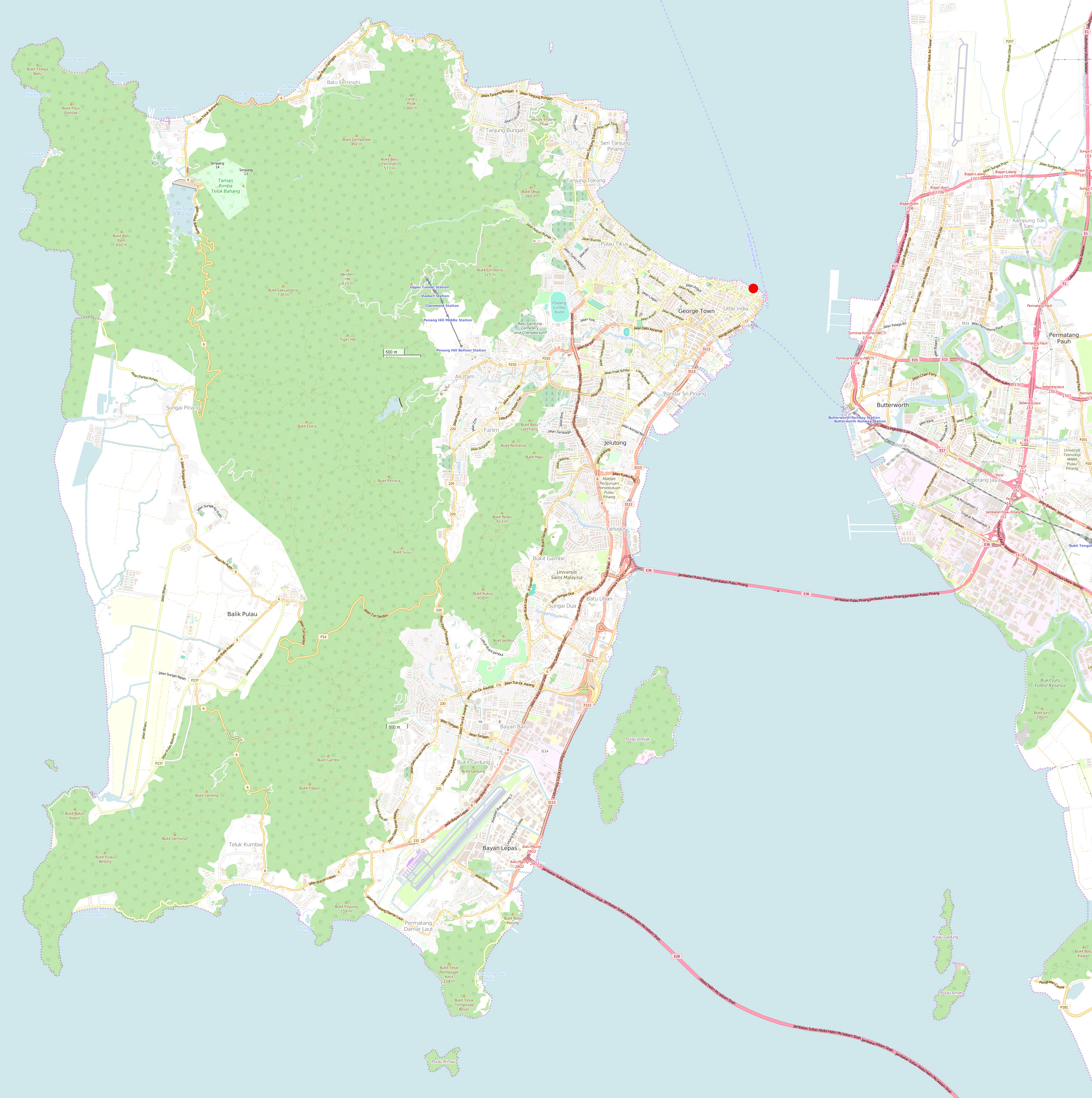 Map of Penang